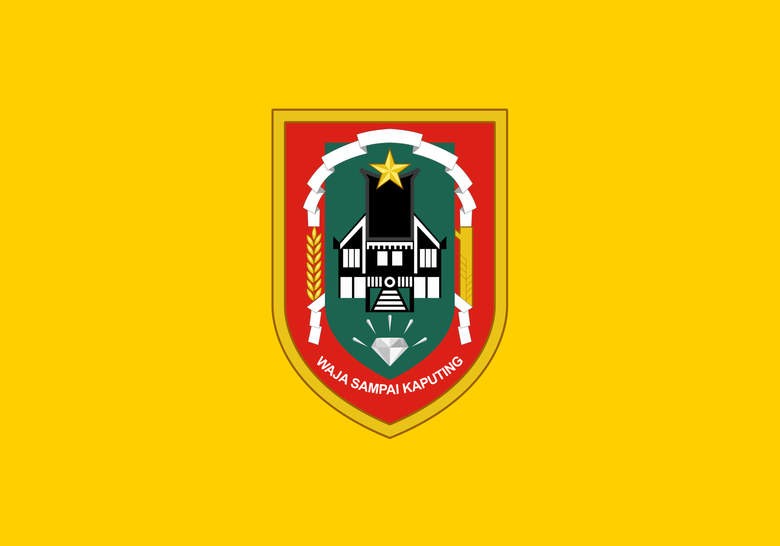 Flag of South Kalimantan, See legal regulation about the flag.